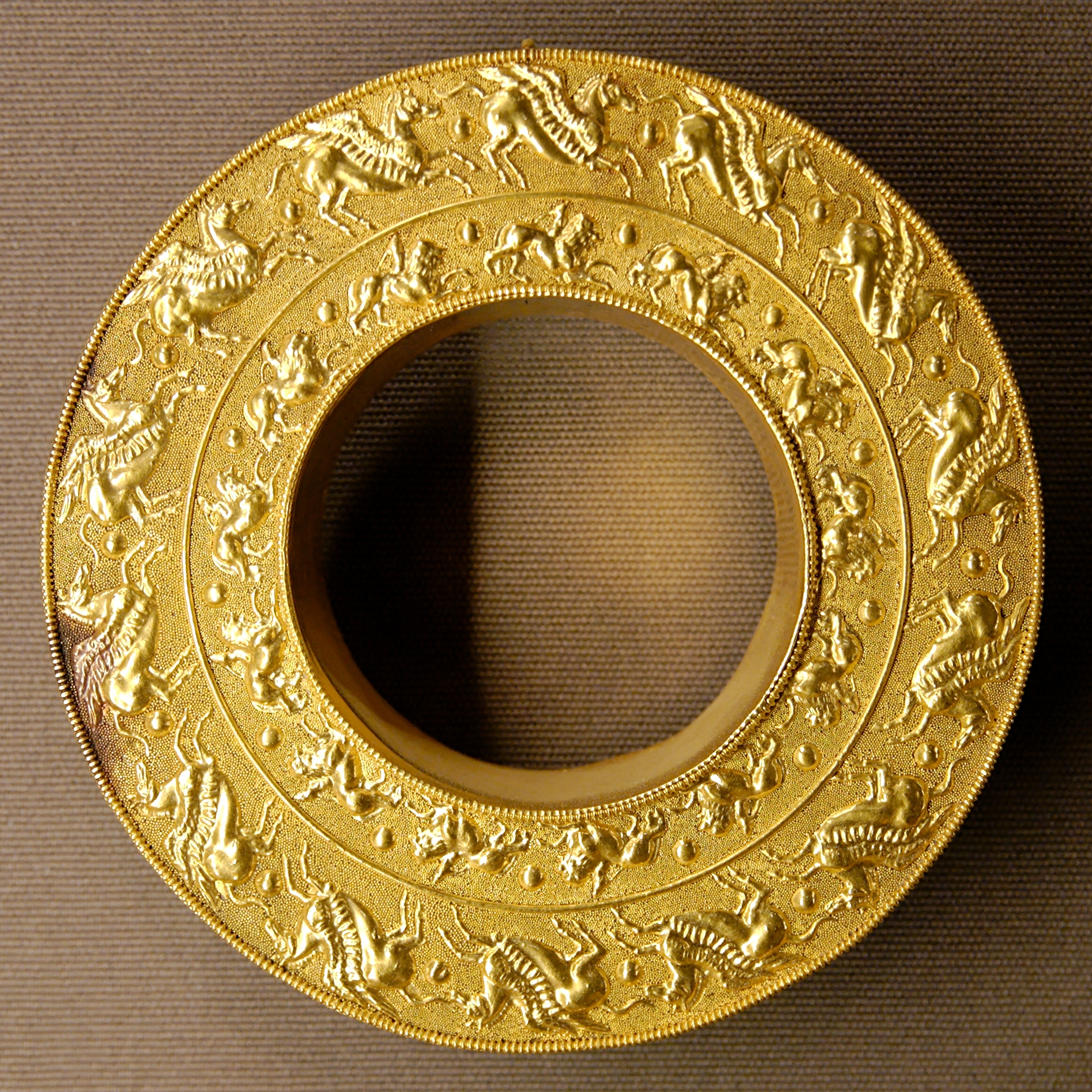 Reel with representations of Pegasus and Chimaira, probably an ear-stud. Gold with filigree, granulation and stamping decoration, early 4th century BC. Origin is uncertain: the shape refers to Southern Italy whereas the granulation is specific to Etruscan jewellery.